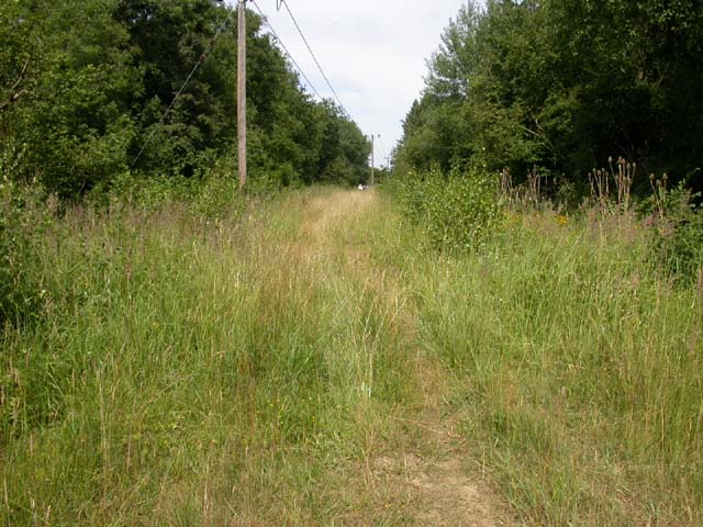 Barnstaple Wood. This is a disused railway track (Bedford to Northampton) used as a walking track through the wood.